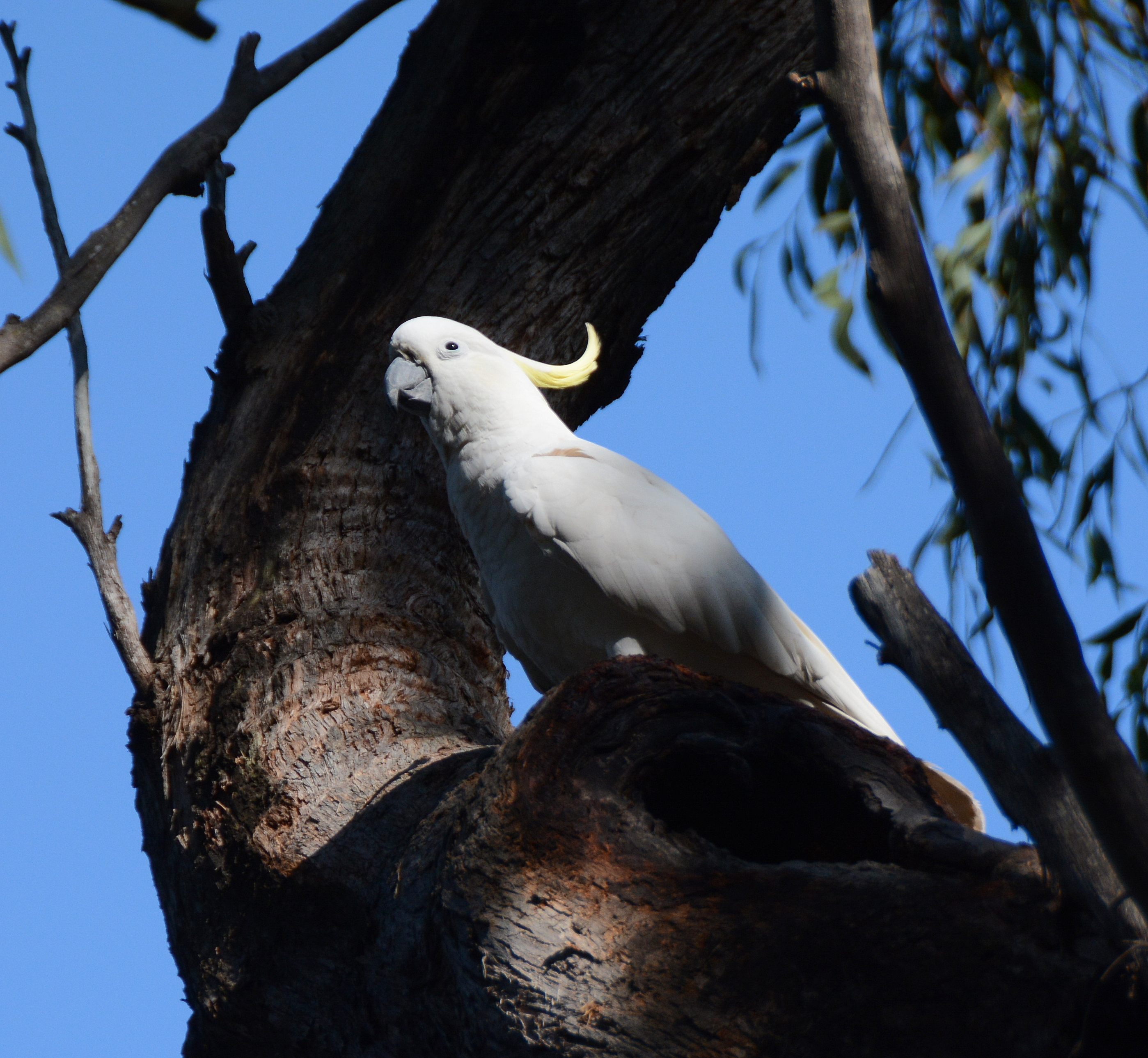 Sulphur-crested cockatoo, Lane Cove River, Sydney